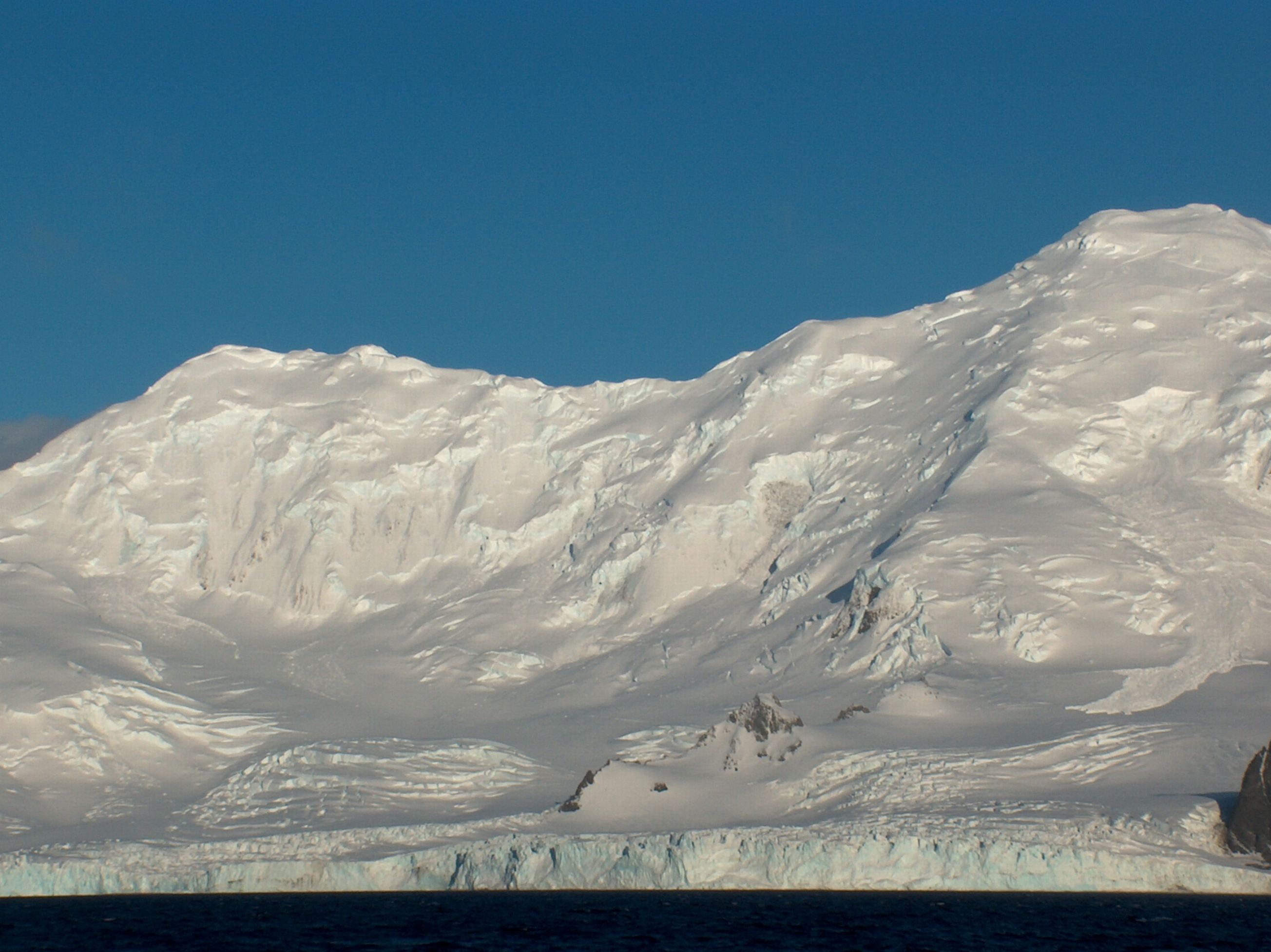 Vladaya Saddle on Livingston Island, Antarctica seen from Bransfield Strait